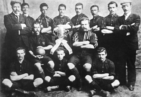 The Central Uruguay Railway Cricket Club in 1900, posing with cup. That was the first official title won by the team.Back, l. t. r. Thomas "Guillermo" Davies, Ricardo De los Ríos, Juan Pena, Charles "Carlos" Ward, Lorenzo Mazzucco, Anselmo Faustino Fabre, Thomas Lewis, George "Jorge" Canning; Middle, l. t. r. Alfred "Alfredo" Jones, James Buchanan; Front, l. t. r. William Davies, William "Guillermo" Best, Charles "Carlos" Lindeblad.